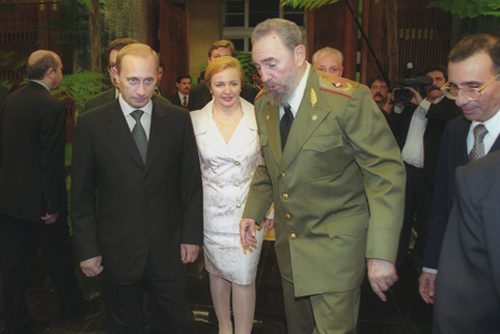 REVOLUTION PALACE, HAVANA. An official reception given by Fidel Castro, Chairman of the Cuban State Council and Council of Ministers, in honour of President Putin and his wife Lyudmila.